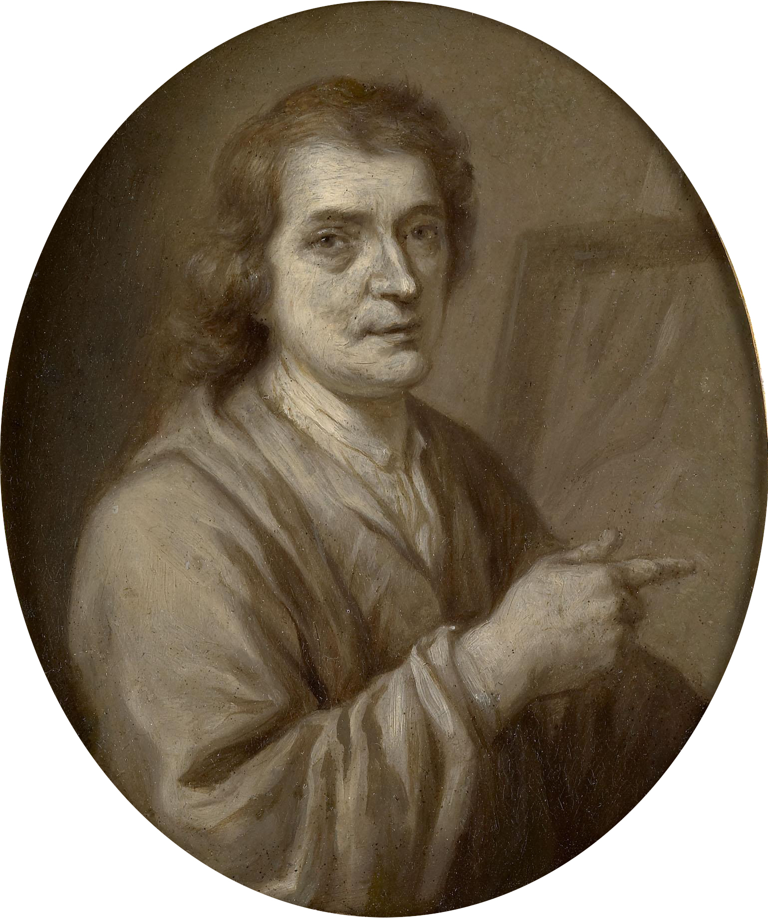 Portrait of Joost van Geel. Part of the Panpeoticon Batavum, a series of portraits of Dutch poets. After a self-portrait at the Schielandhuis, Rotterdam.